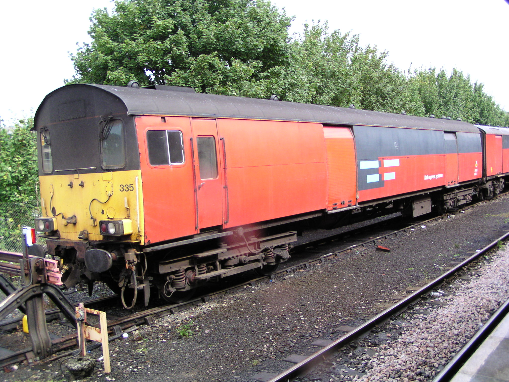 British Rail Propelling Control Vehicle, NAA 94335 at Plymouth on 29th August 2003. This vehicle is painted in Rail Express Systems red/grey livery with light blue flashes.